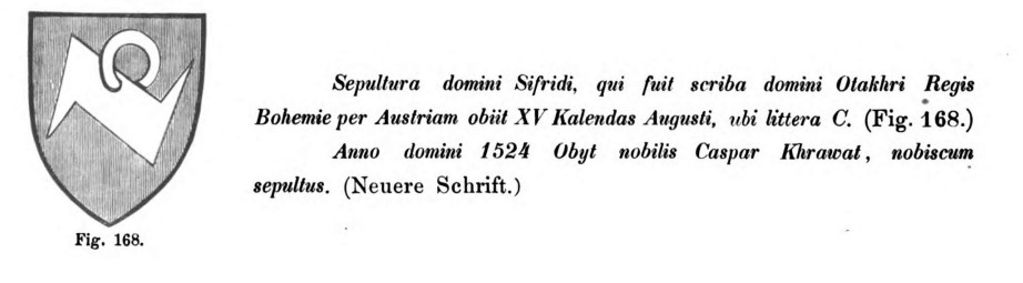 Heraldry description from tableux from Minorites Monastery in Vienna (Sifridi) Berichte und Mitteilungen des Altertums-Vereines zu Wien ( 1872 ), page 100